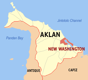 Map of Aklan showing the location of New Washington